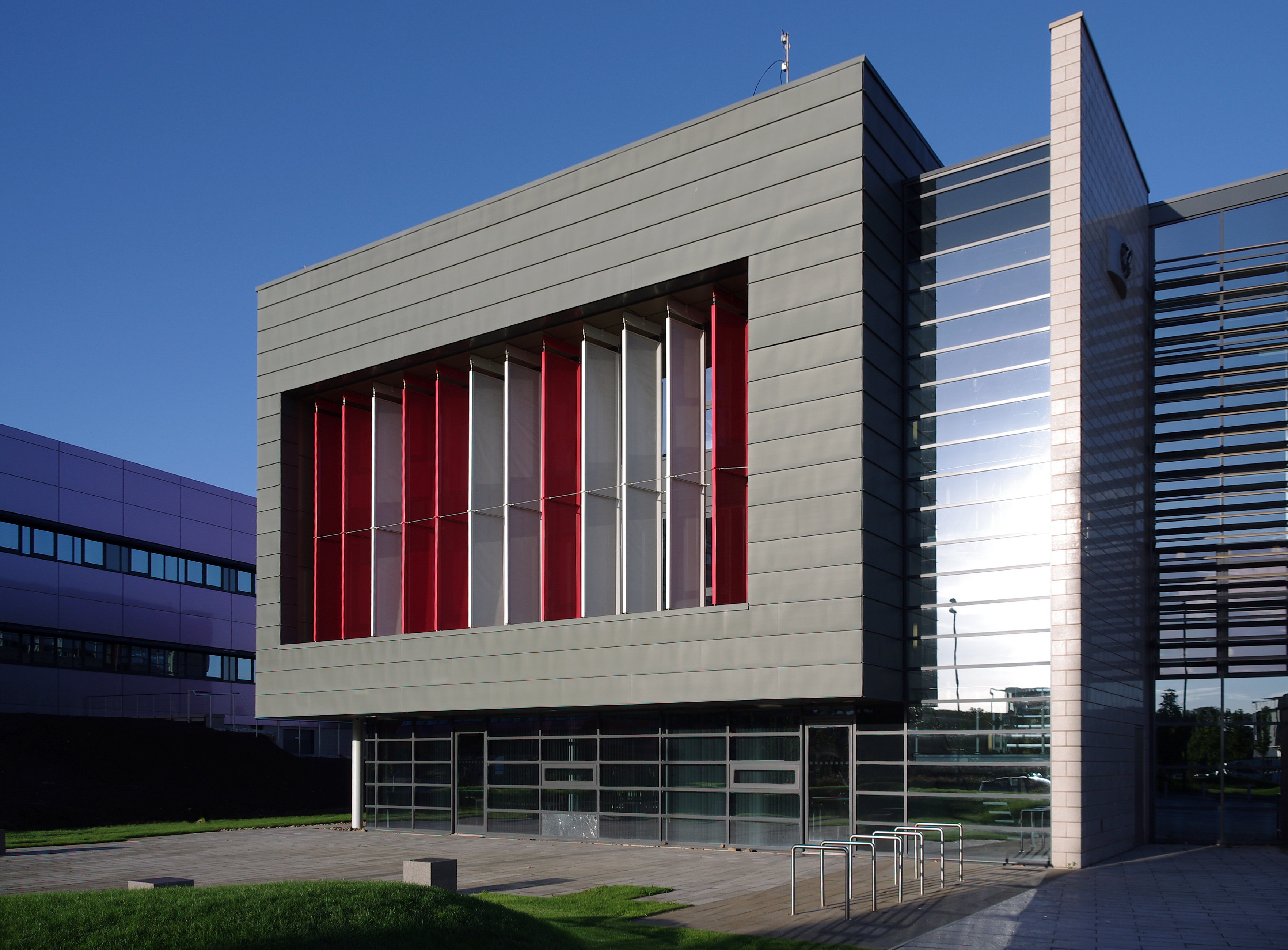 The Nottingham Geospatial Building (whatever that means) on Triumph Road, Jubilee Campus.